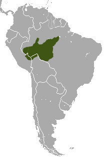 Rio Tapajos Saki (Pithecia irrorata) range